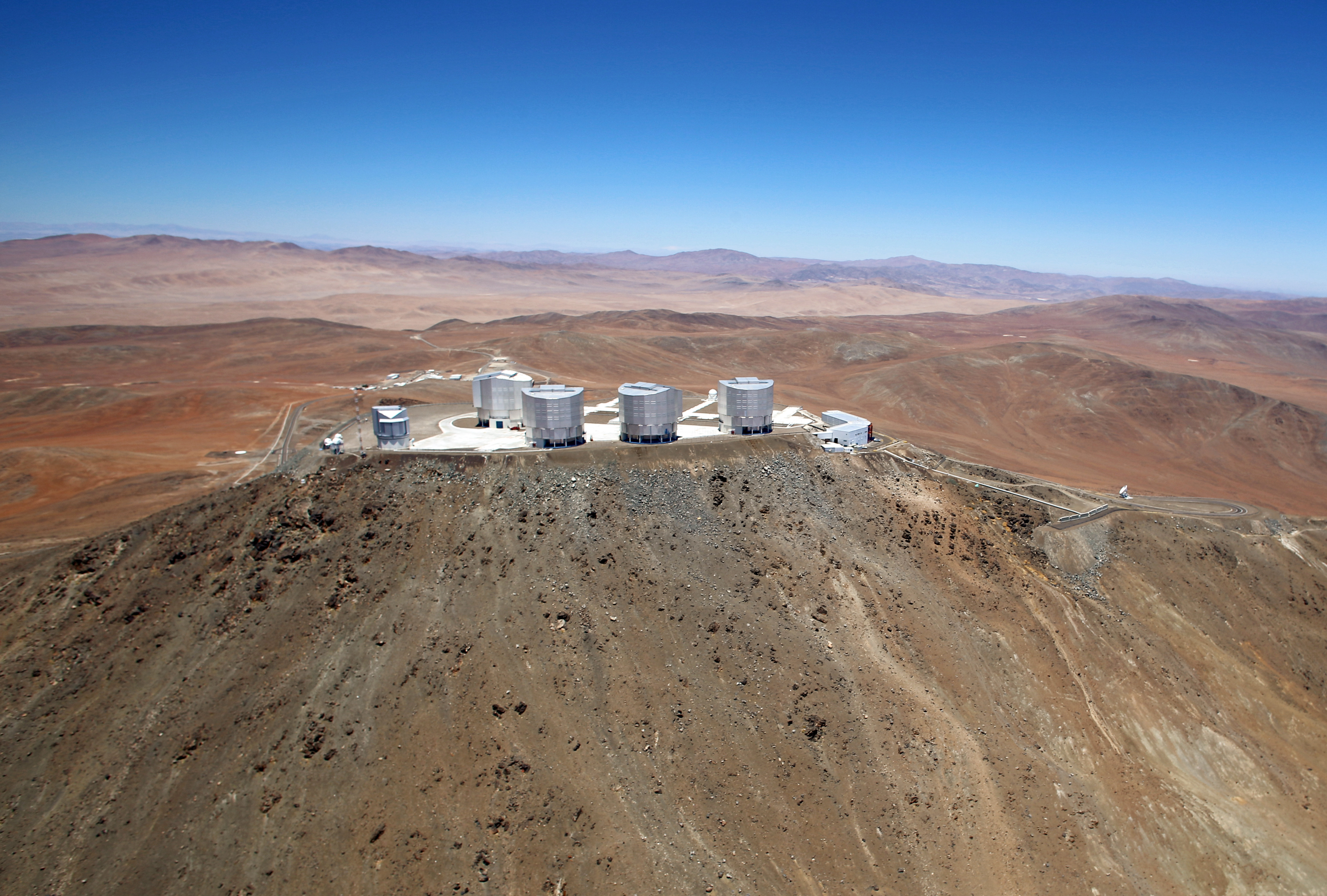 This rare aerial view of the Paranal Observatory was taken in December 2012 by Clémentine Bacri and Adrien Normier, who are flying a special eco-friendly ultralight aeroplane on a year-long journey around the world. This striking view shows the raw natural beauty of the landscape at the remote home of one of the world’s finest astronomical facilities, ESO’s Very Large Telescope (VLT), with its four independent 8.2-metre telescopes sitting at the top of Cerro Paranal. ESO has an ongoing outreach partnership with the ORA Wings for Science project, a non-profit initiative which offers aerial support to public research organisations. The two crew members of the Wings for Science Project did a flyby above the observatories of Northern Chile, among other locations, before they left South America and jumped to Australia. During their trip, they help out scientists by providing aerial capabilities ranging from air sampling to archaeology, biodiversity observation and 3D terrain modelling. The short movies and amazing pictures that are produced during the flights are used for educational purposes and for promoting local research. Their circumnavigation started in June 2012 and finished in June 2013 with a landing at the Paris Air Show on 17 June.